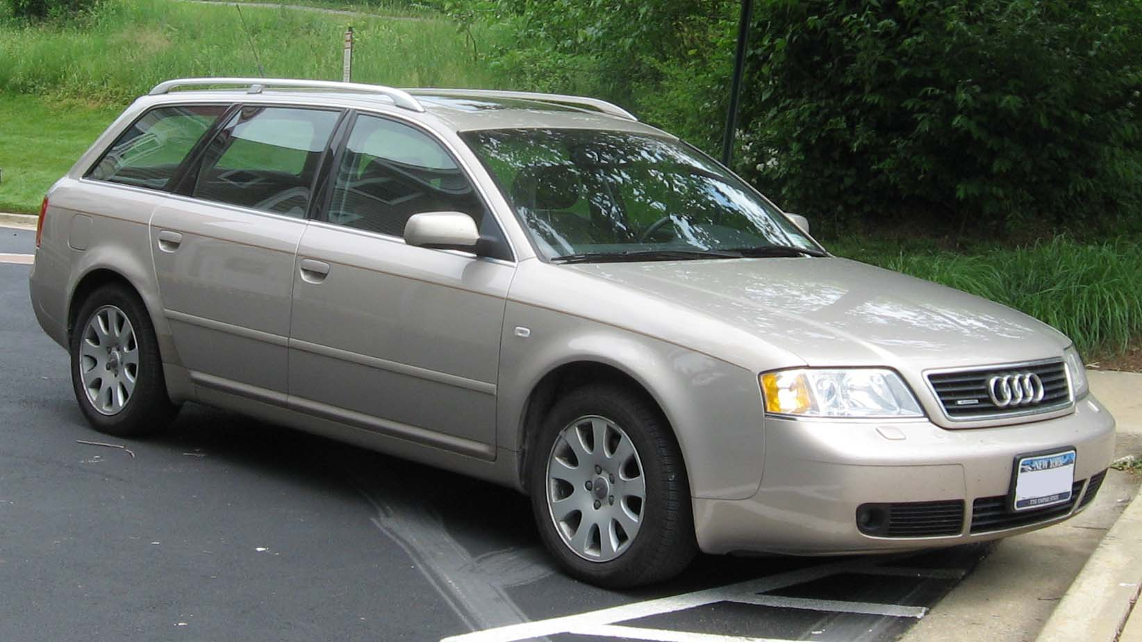 1997-2004 Audi A6 photographed in USA.